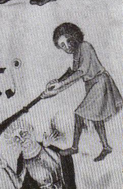 Images of Scottish atrocities on the margins of the Luttrell Psalter, folio 169, right hand side.